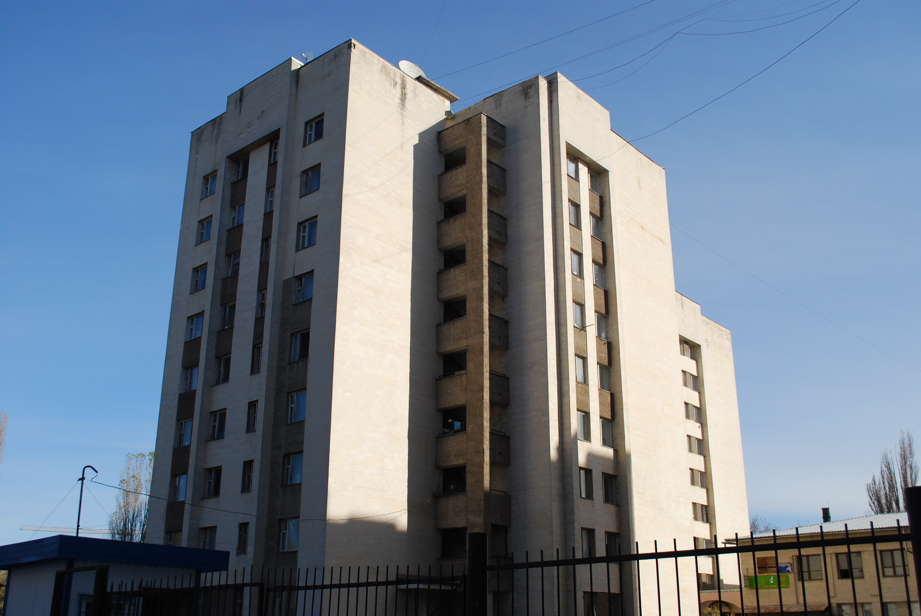 One of the students' hostels of Crimea State Medical University (Simferopol, Ukraine)